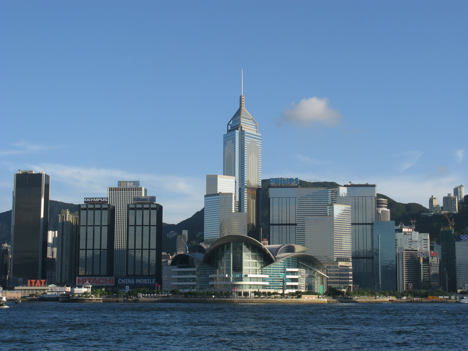 Wan Chai, view from Tsim Sha Tsui